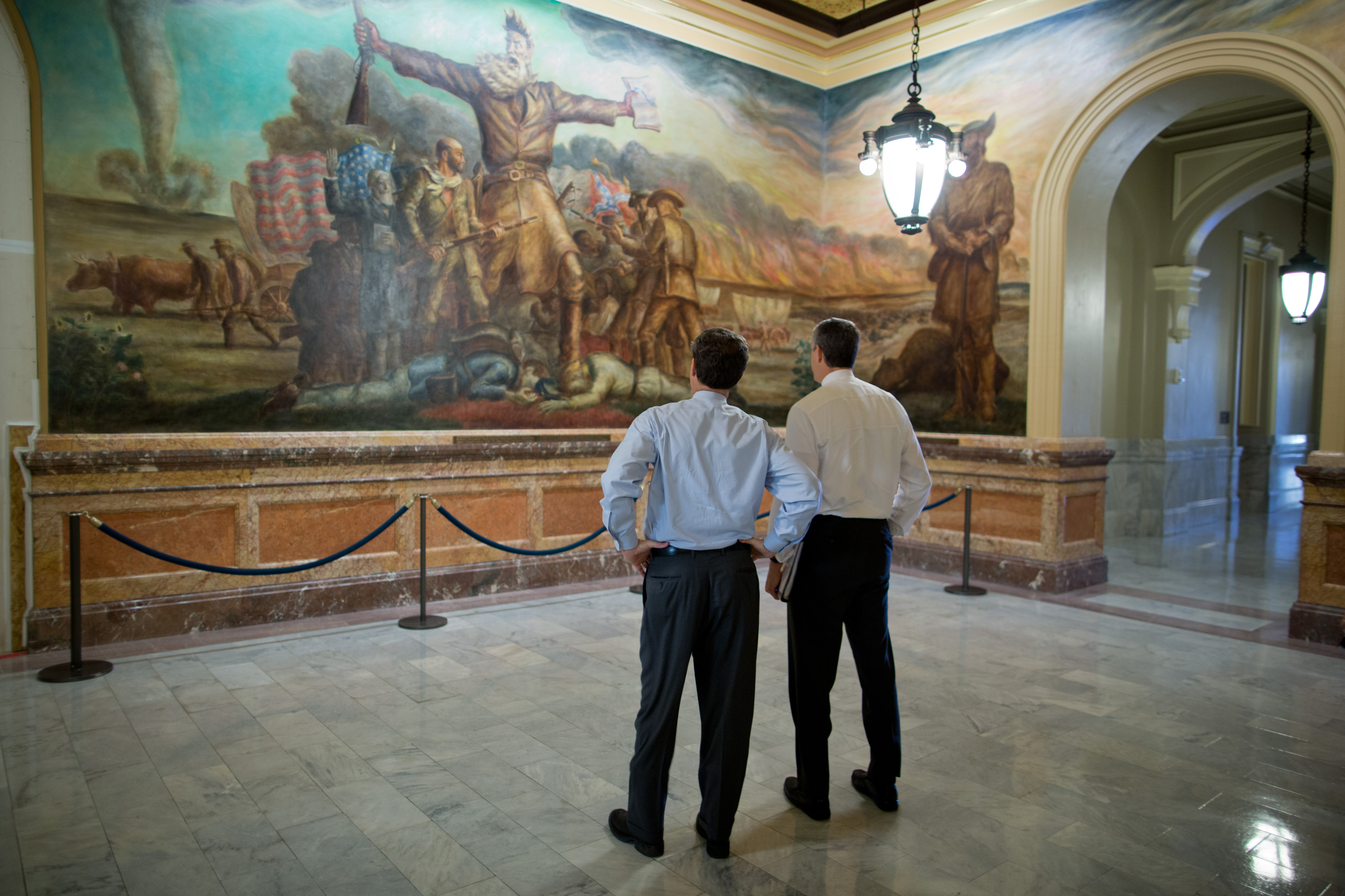 Secretary Arne Duncan meets with Governor Sam Brownback (R-Kan.) at the Capitol Building in Topeka, Kan., Sept. 18, 2012. (Official White House Photo by Chuck Kennedy)